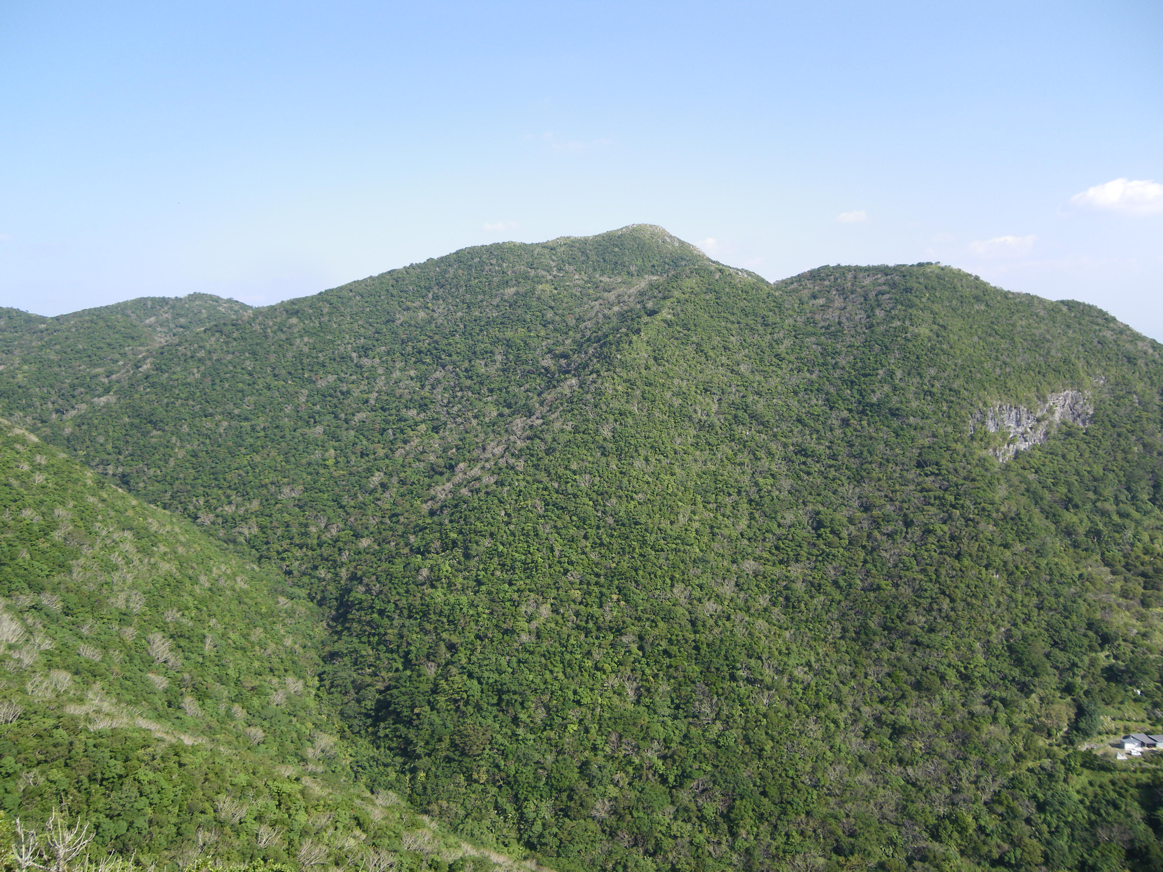 Mount Katsuu seen from Mount Sankaku, Okinawa Prefecture, Japan